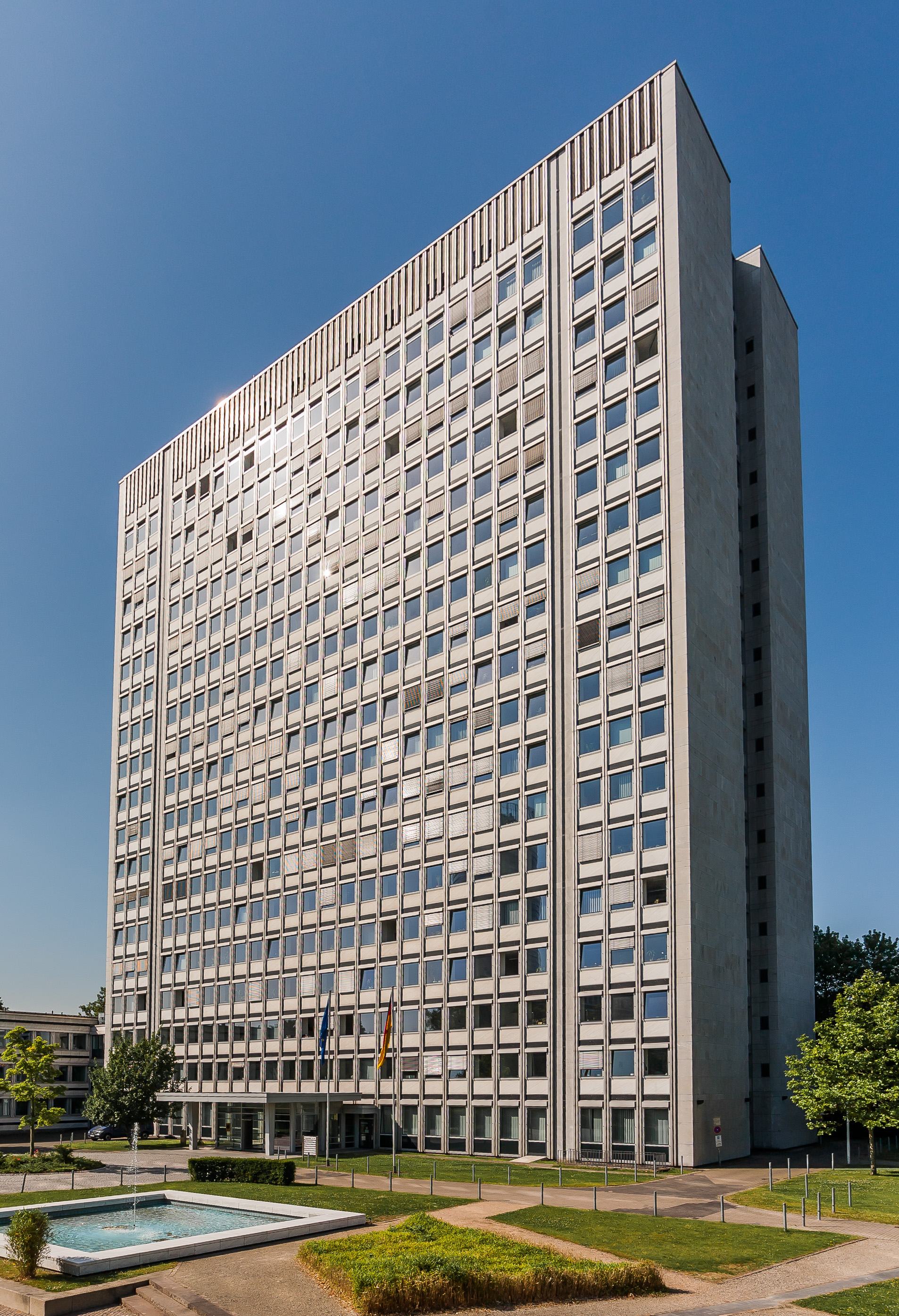 Tulpenfeld 4 in Bonn-Gronau, headquarters of German Federal Network Agency